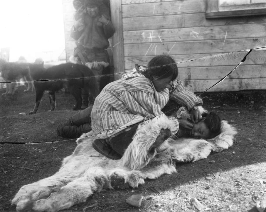 Yupik tattoing